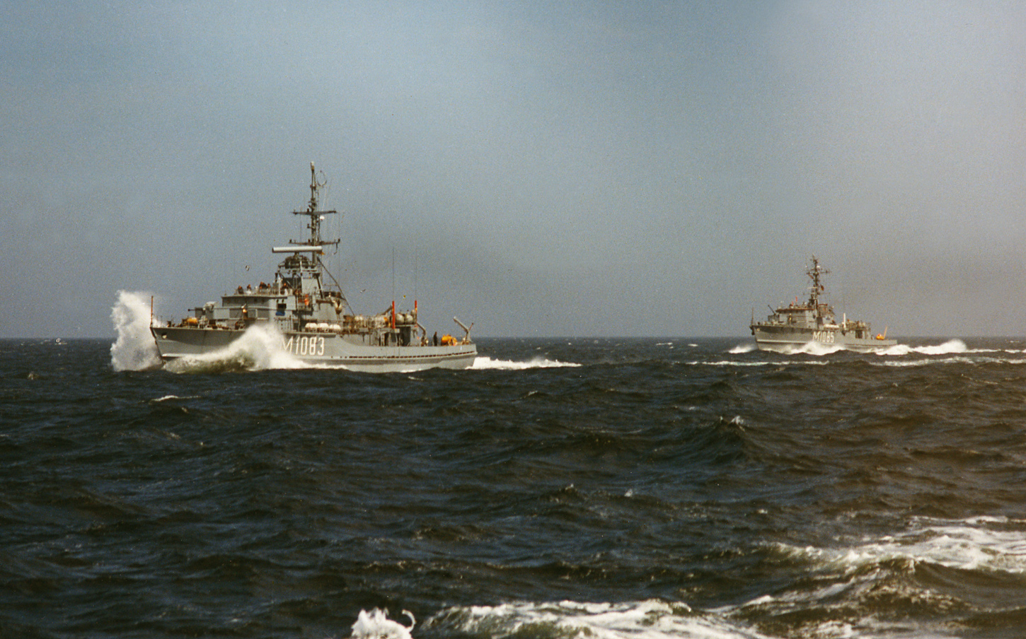 German Minesweeper M1083 Ulm and M1085 Minden, North Sea